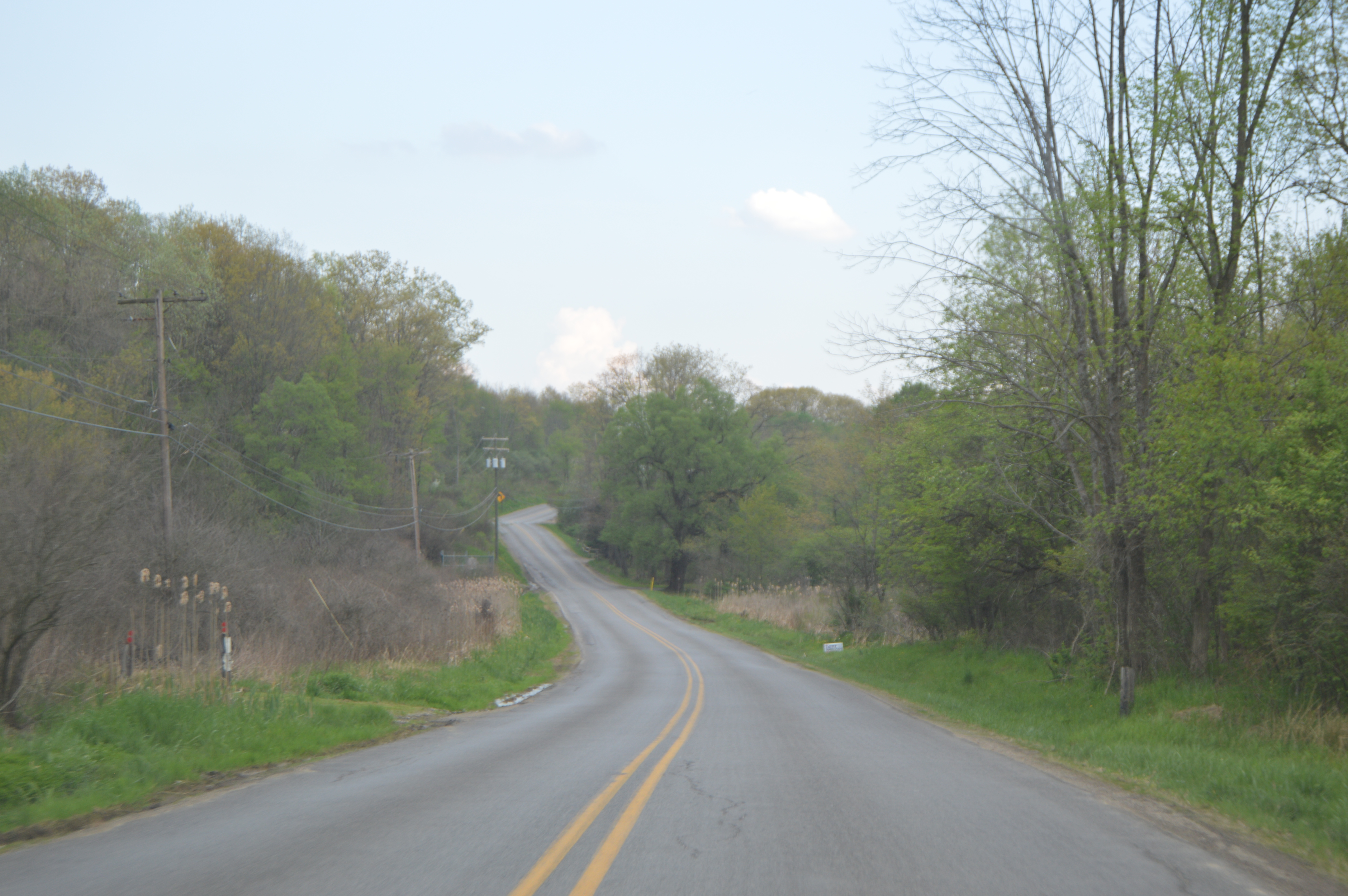 Road scene along Hooker Road southeast of West Sunbury in Clay Township, Butler County, Pennsylvania, United States.